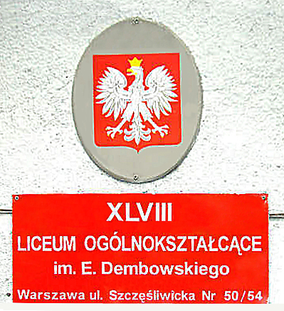 School nameplate